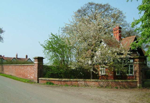 Shavington Park Lodge. Disused lodge .